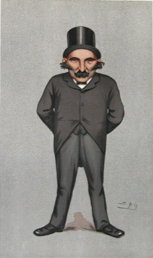 Caricature of Mr Charles Wallwyn Radcliffe Cooke JP DL. Caption read "The Constitutional Union".